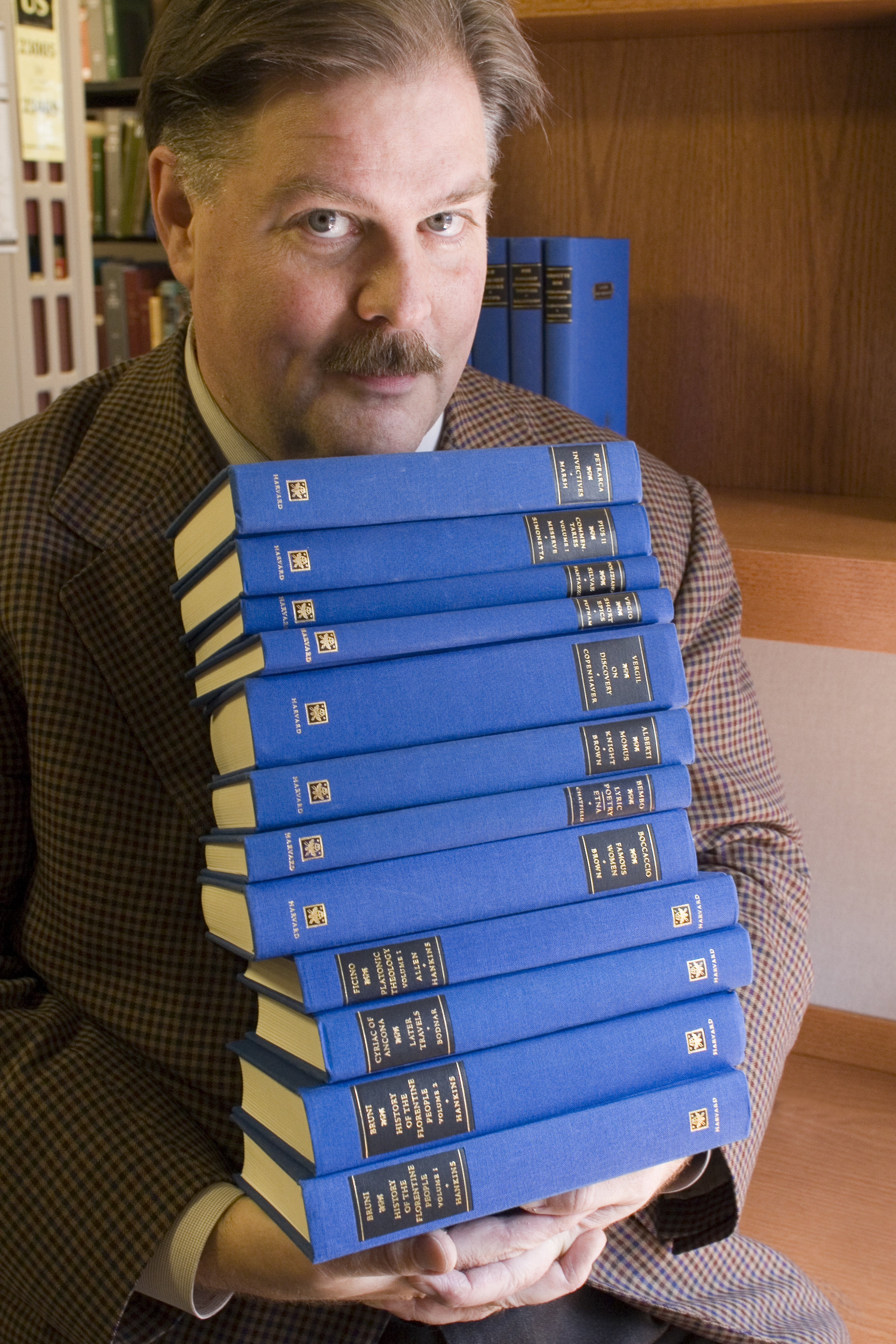 History Professor of Harvard University, James Hankins, holds a collection of books from the I Tatti Renaissance Library, of which he is General Editor